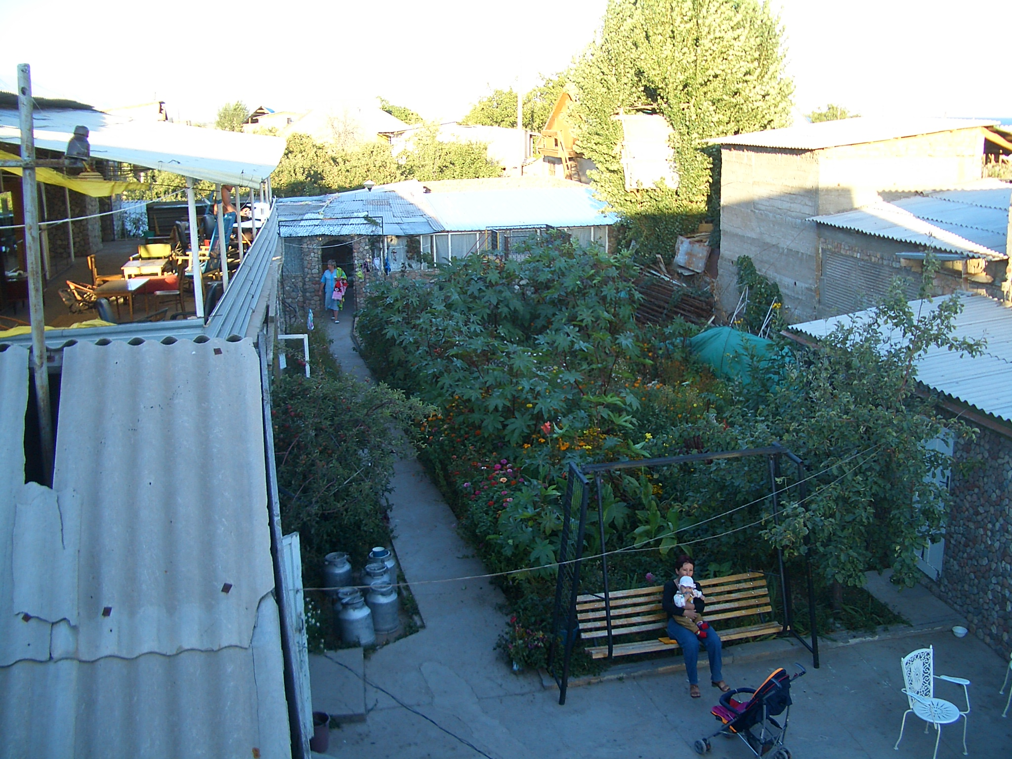 A typical guesthouse in Tamchy, centered around a small patio.